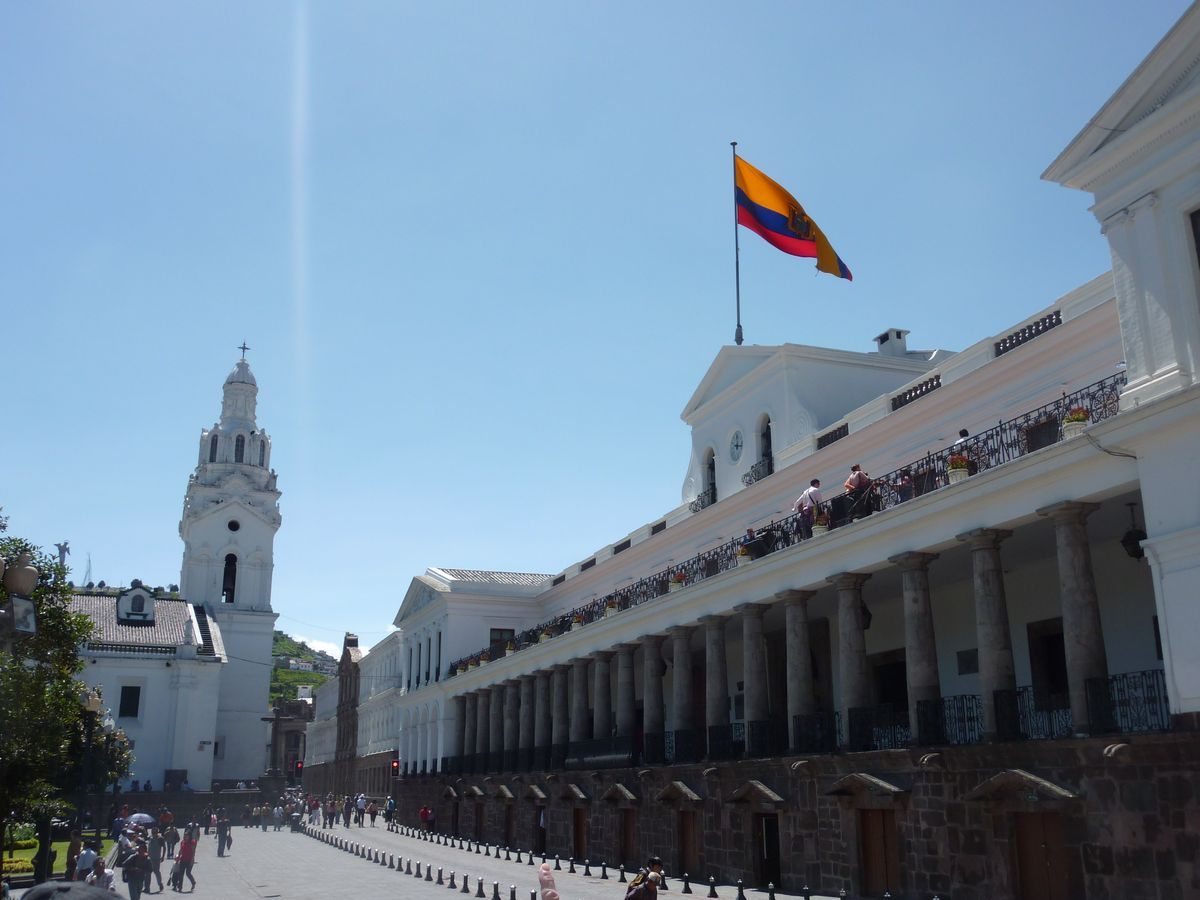 Carondelet Palace or Presidential Palace in Quito